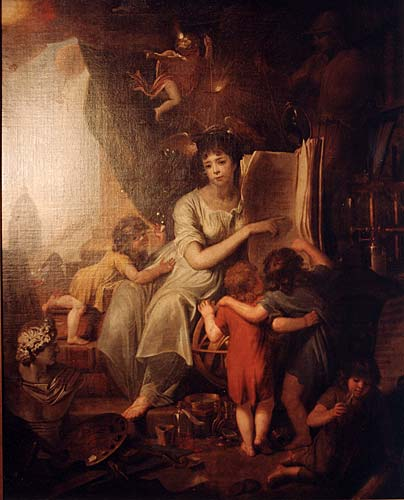 Allegory of Science and Wisdom (1798), oil on canvas, by James Millar